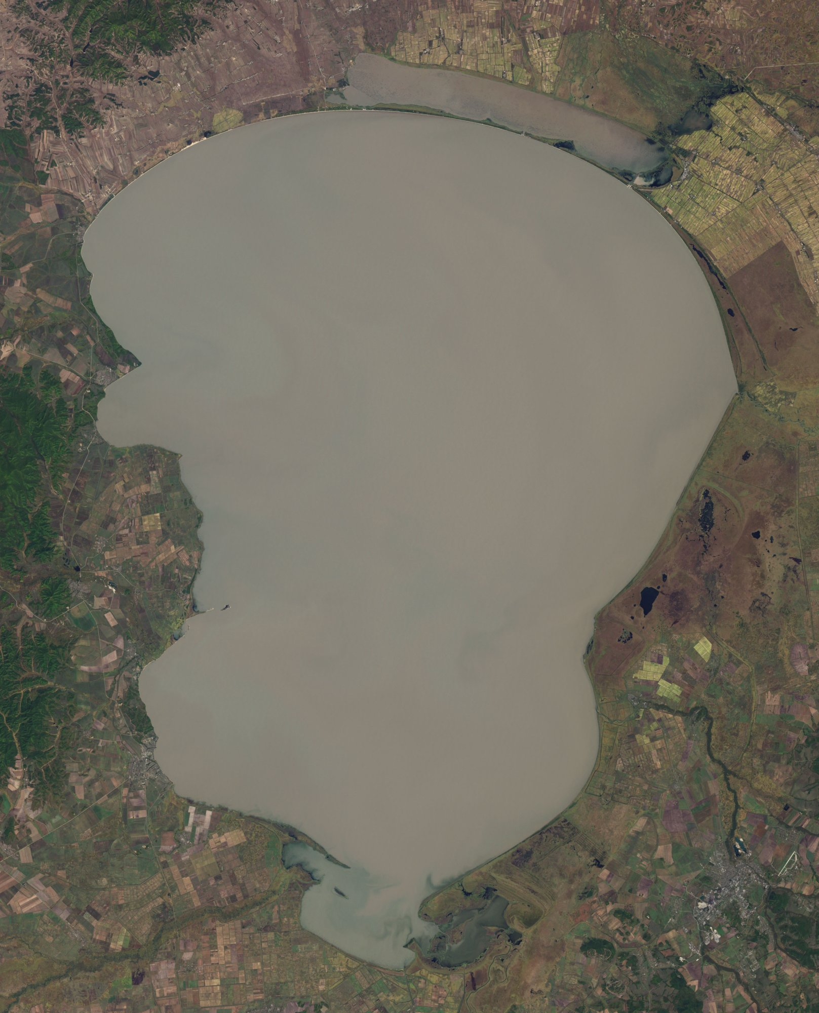 The Enhanced Thematic Mapper on NASA’s Landsat 7 satellite took this picture of the northern part of Lake Khanka on September 25, 2001. The lake’s uniform, nondescript color may result from sediment. In contrast to the lake, the surrounding land surface shows a variety of colors and textures.